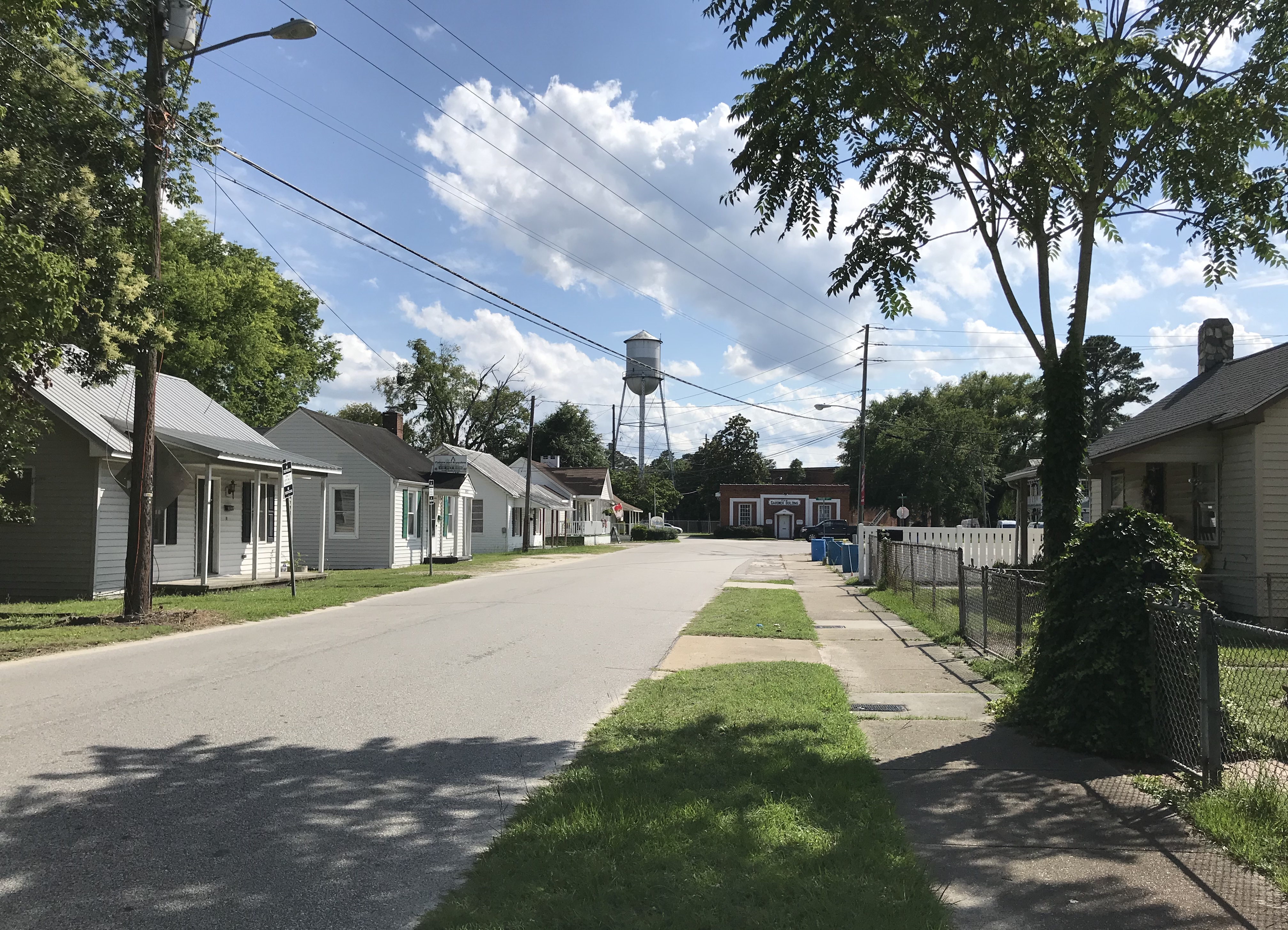 Residential street in Hope Mills with Gardner Building in background